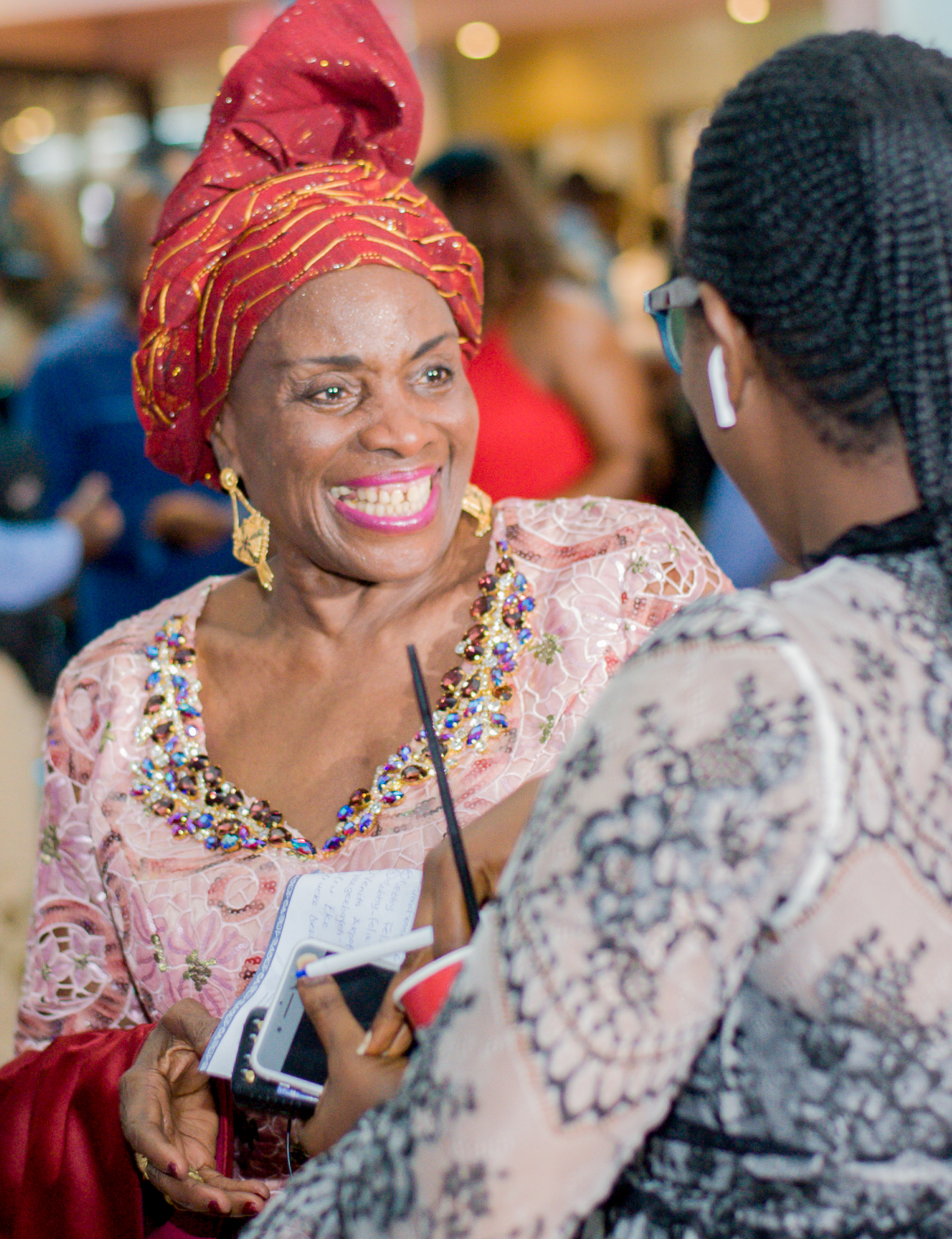 Pictures from AMVCA 2020